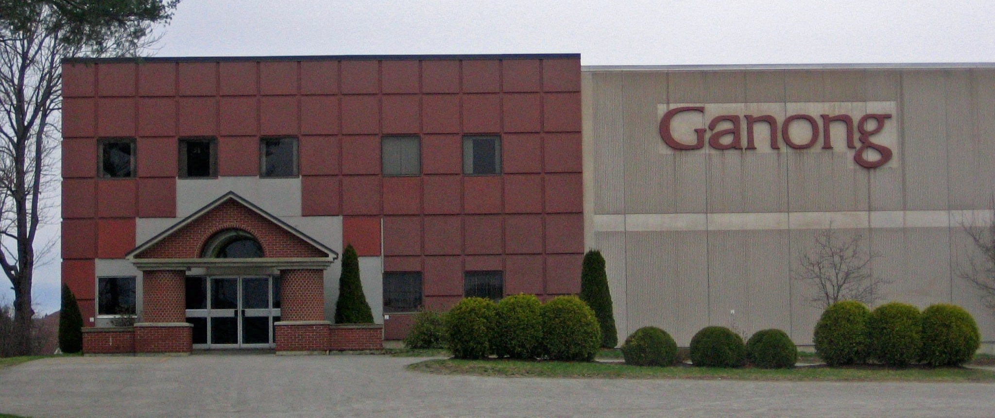 My picture from March 2006.